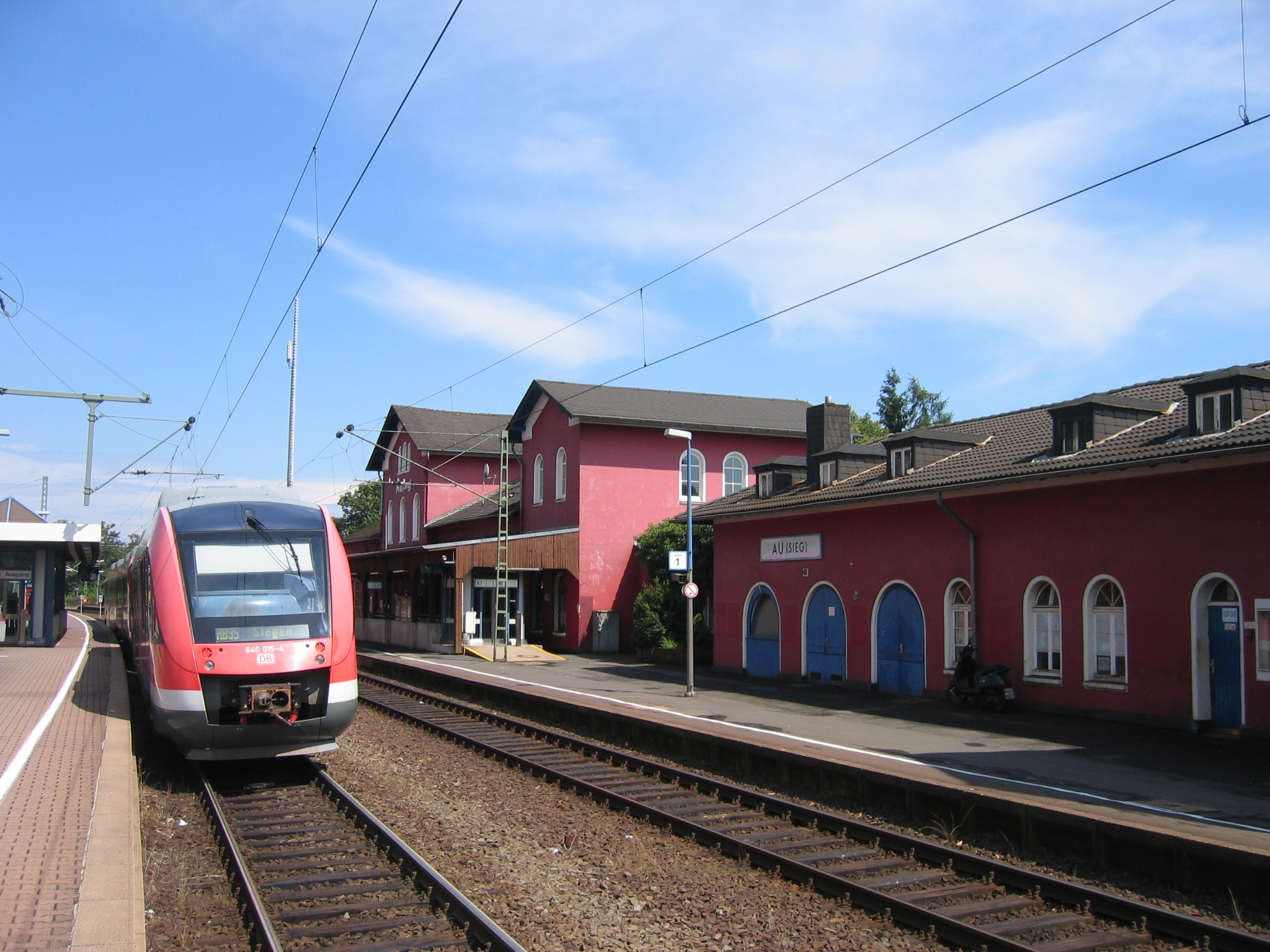 640 015-4 in Au (Sieg) (S-Bahn station), NRW, Germany